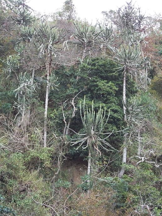 Euphorbia cf. triangularis at Ilanda Wilds